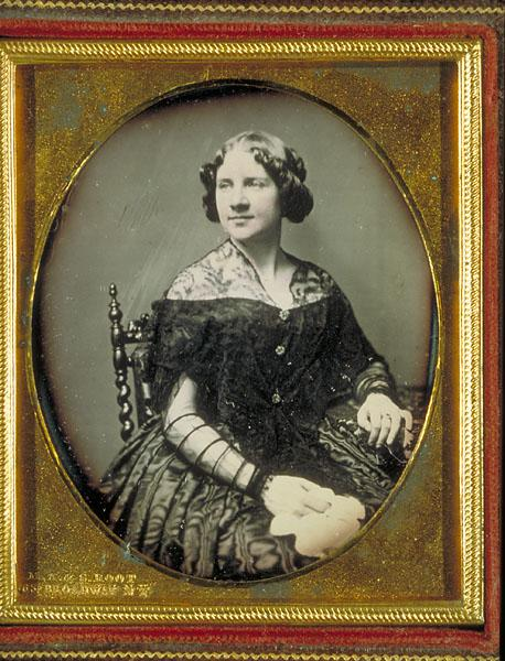 Daguerreotype of Jenny Lind, by Root Bros, circa 1850-1852. From wikipedia: Second known Daguerreotype of Jenny Lind circa September 1850. Sixth plate daguerreotype taken by M. Root or S. Root at their studio in New York City. This daguerreotype was later made into a lithograph of Jenny Lind by Nagel & Weingaetner. TC-68, Harvard Theatre Collection, Harvard University